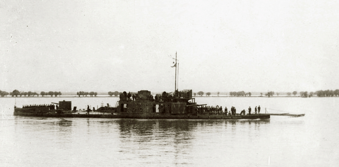 A Romanian monitor of the Bratianu class during World War I, shortly after the 1917 modifications